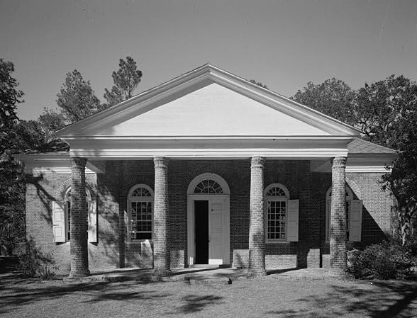 St. James Episcopal Church, Santee (Charleston County, South Carolina) (cropped)